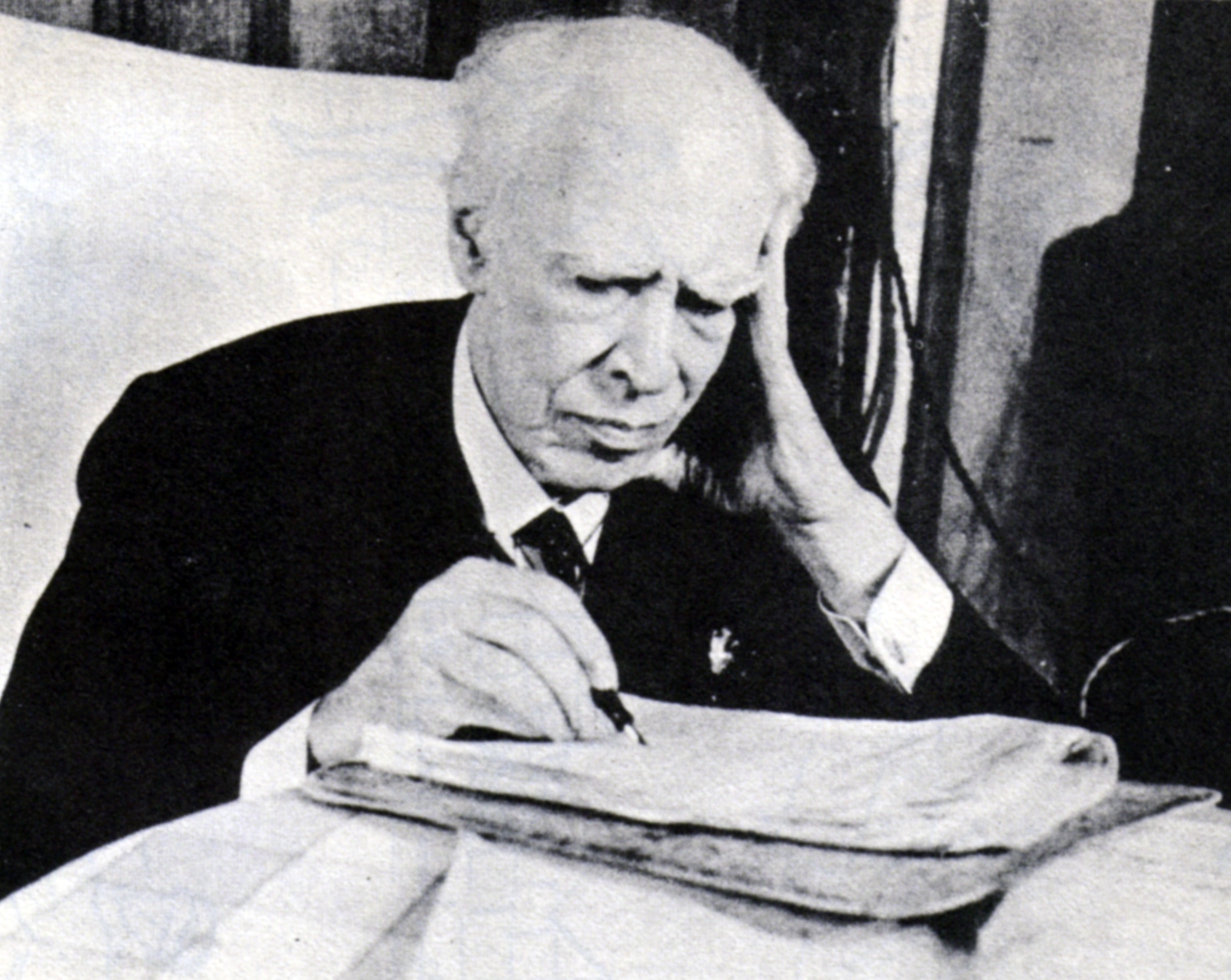 Konstantin Stanislavski in 1938.